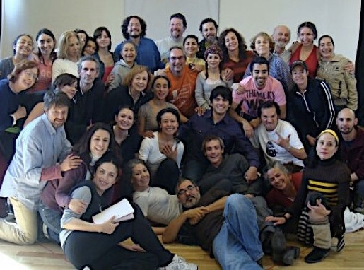 FIRST GENERATION OF THE CNT COYOACÁN